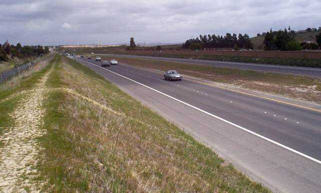 State Route 76 in Oceanside. Taken April 3, 1999. Public domain image.